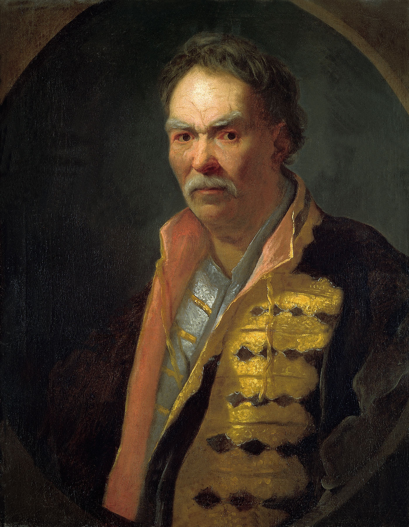 A Malorossian Hetman. The State Russian Museum, St. Petersburg. Probably Pavlo Polubotok (Полуботок Павло Леонтійович)